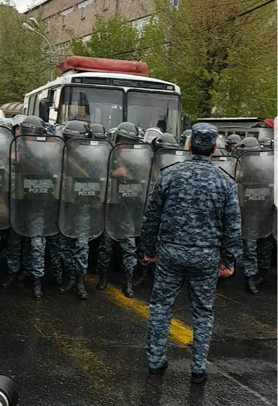 Police forces in Komitas avenue, 2018, 20 April